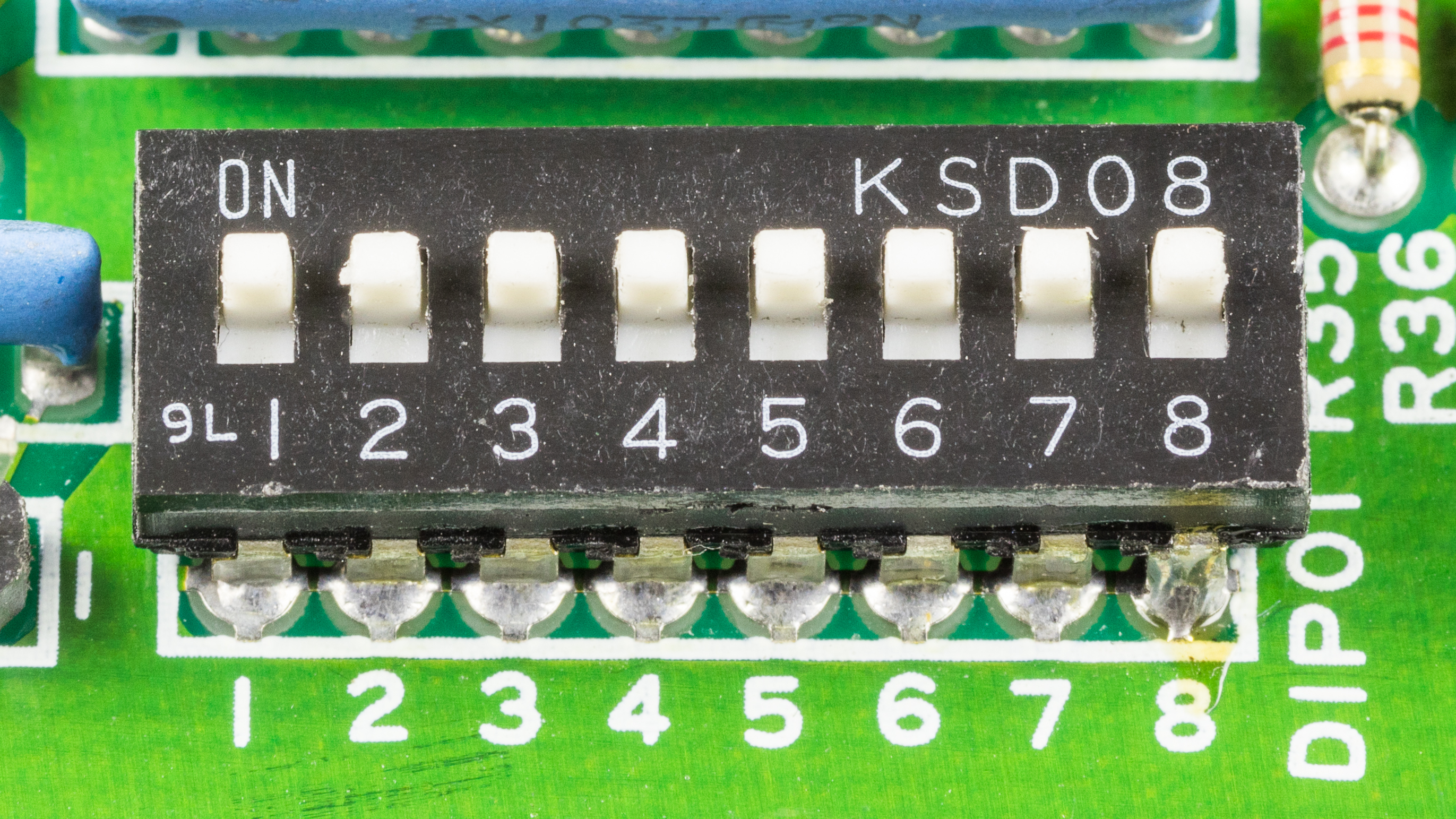 Nedap ESD1 - printer controller - DIP switch - all off